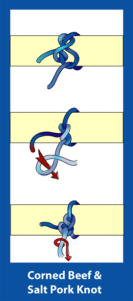 The image is a diagram on how to tie this knot. This knot is used to tie animals while cooking them. from there it becomes its name.